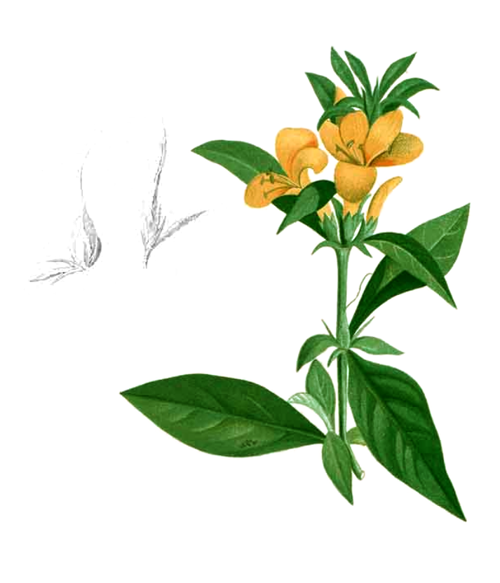 Plate from book Barleria cristata